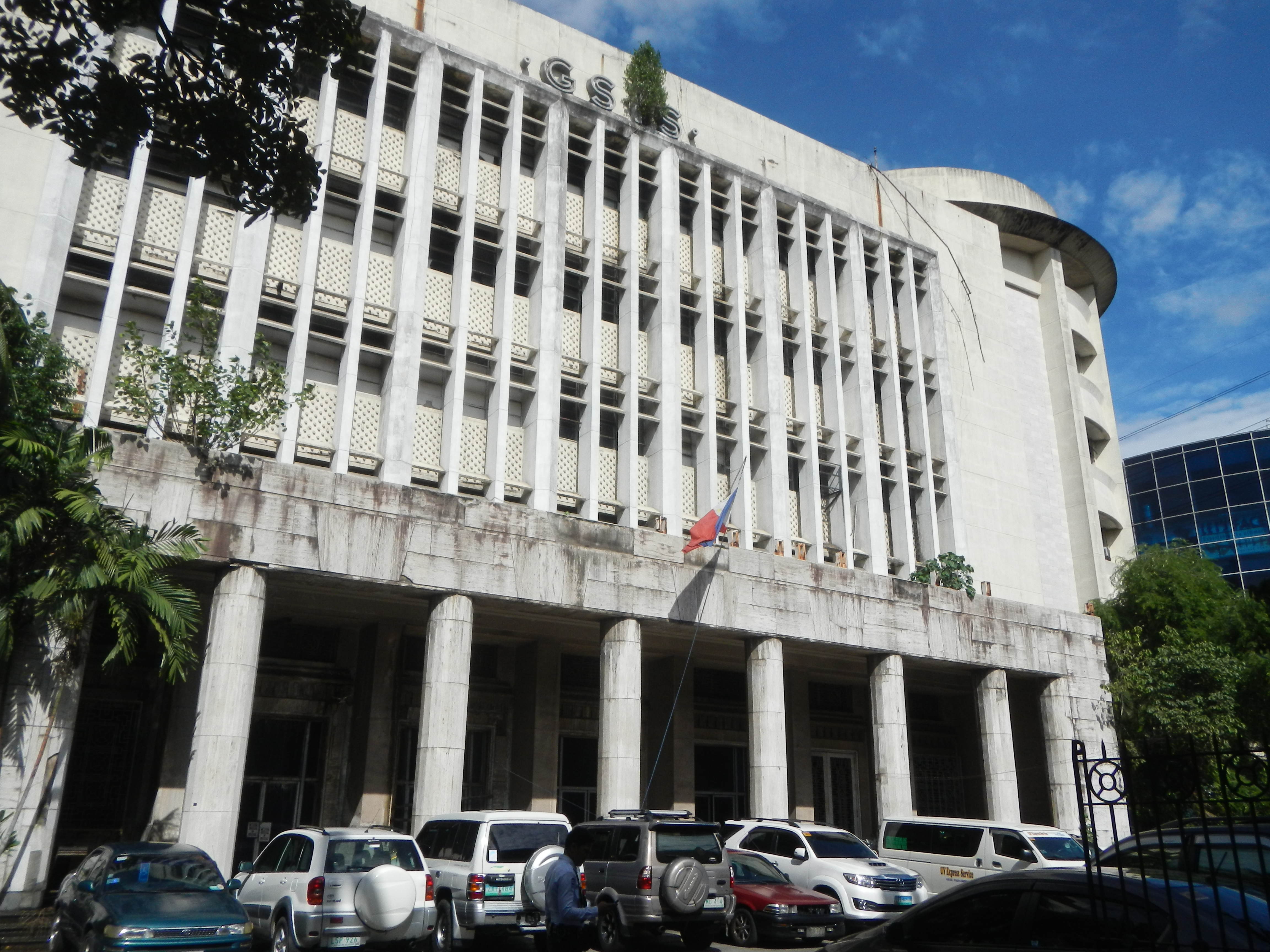 The Old GSIS Building, Government Service Insurance System Central Terminal LRT Station beside the Manila Barangay Bureau, Office of the City Mayor of Manila and National Waterworks and Sewerage Authority (NAWASA 1955, building, Aroceros, Manila) along Antonio Villegas (Aroceros) Street in Legislative districts of Manila Barangays 659, 659-A, 663 and 663-A, Zone 71, District V, Ermita, Manila, City of Manila, to SM City Manila Natividad Lopez Street and San Marcelino Street Ermita, Manila, City of Manila.